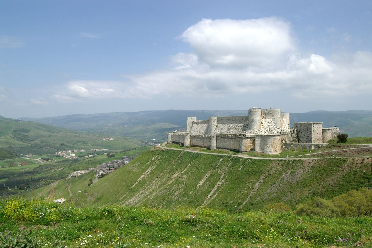 Krak De Chevaliers general view, Syria.